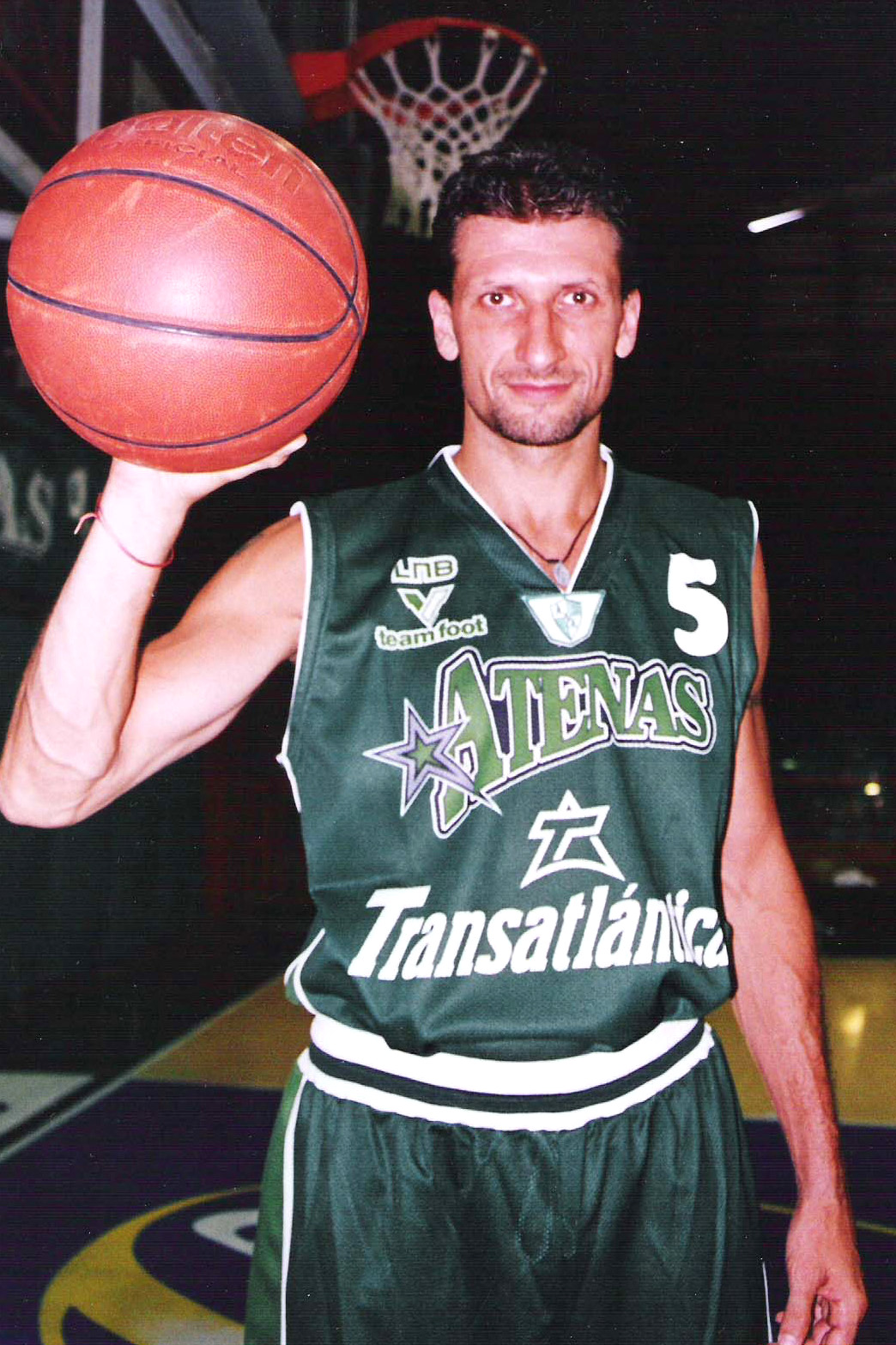 Basketball star Héctor "Pichi" Campana, in 2004